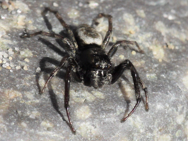 Male Hakka himeshimensis jumping spider found in Marblehead, Massachusetts. Still frame from video.